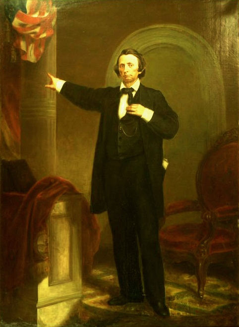 A full-length portrait of William G. Brownlow standing on the rostrum of the House of Representatives in front of a red chair while gesturing toward the United States flag. American newspaper editor and Governor of Tennessee, William "Parson" Brownlow (1805–1877). The Tennessee Reconstruction Legislature, also known as the Brownlow Legislature, commissioned this full-length portrait of Gov. William G. Brownlow in 1866. Tennessee State Museum